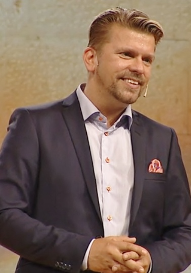 Joakim Lundqvist preaching in Livets Ord 2014